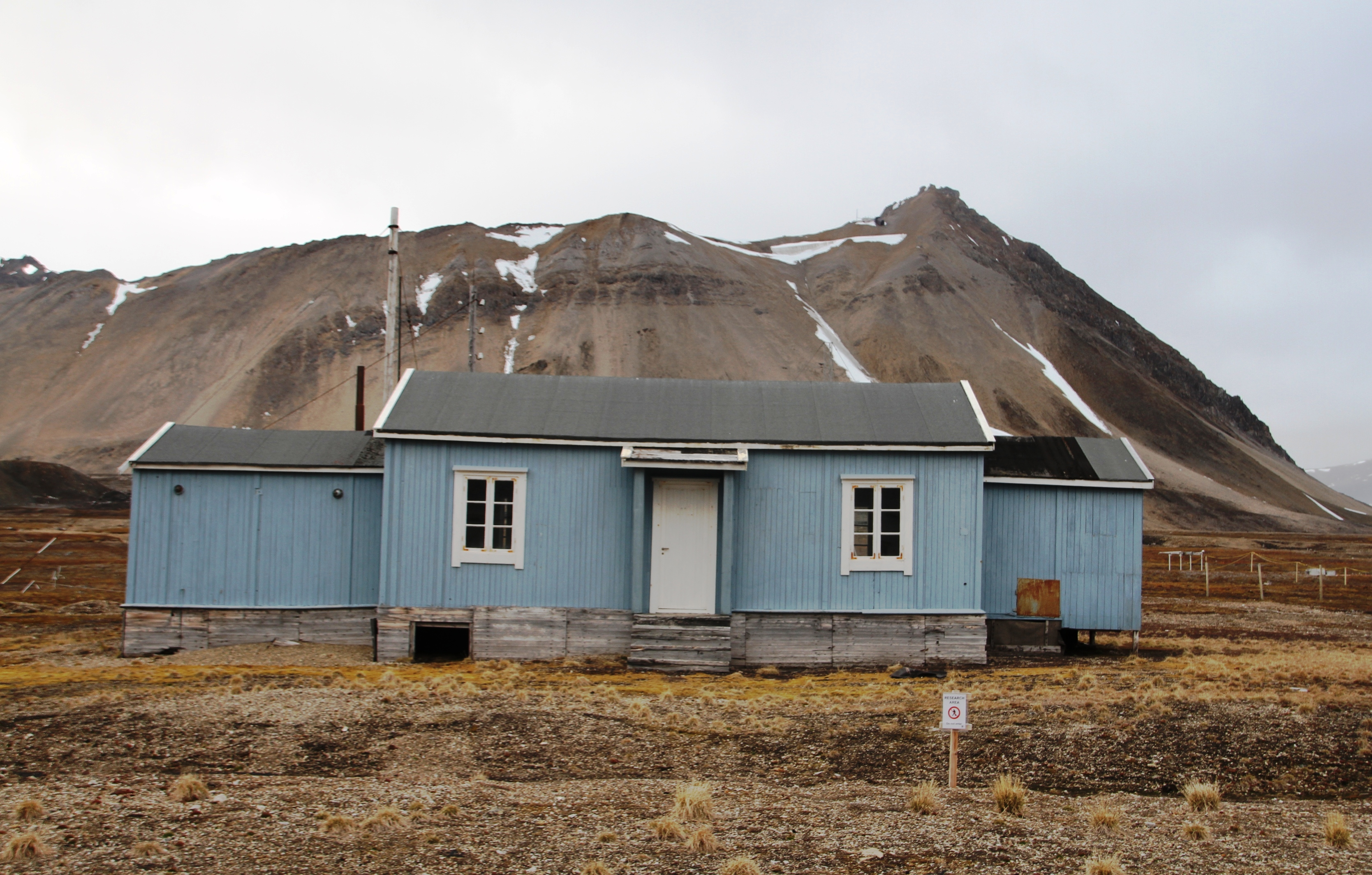 Scene from Ny-Ålesund, the 79* north mining and science community at northwestern Spitsbergen, Svalbard (Norway). Coal mines were abandoned in 1963. Photo taken before the restoration of the building in 2014.